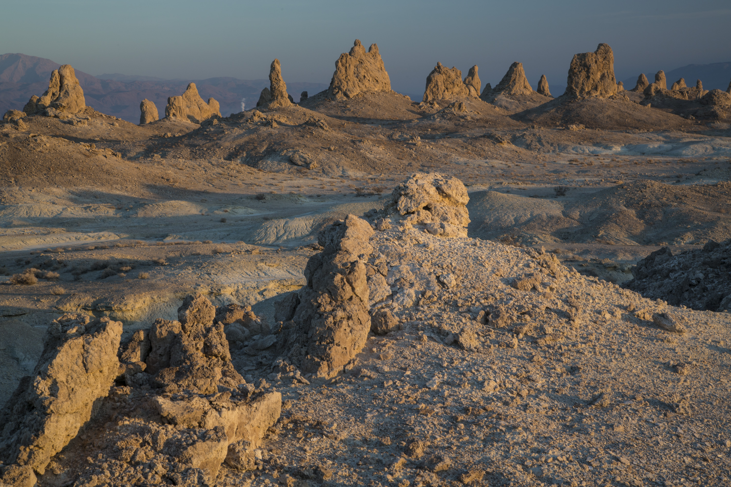 Trona Pinnacles ACEC, California - established for geologic resources. Photo Bob Wick, BLM